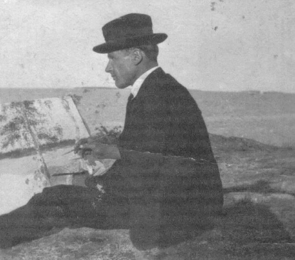 The Finnish supercentenarian Aarne Arvonen (1897-2009) in 1925.